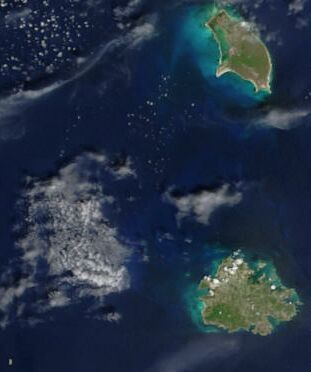 Cropped satellite image, showing the three islands of Antigua And Barbuda.